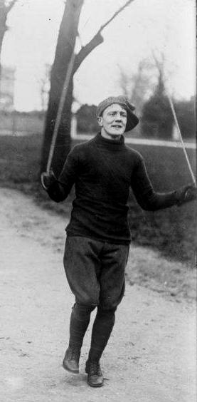 Picture of Joe Lynch training